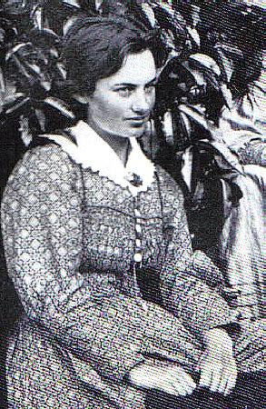 Mary Edith Durham (1863-1944) was a British traveller, artist and writer who became famous for her anthropologist accounts of life in Albania in the early 20th century.